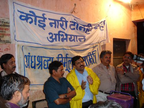 In Chhattisgarh, India famous social organisation Andh Shraddha Nirmulan Samiti is working against Witchcraft. Dr. Dinesh Mishra is founder of this organisation.